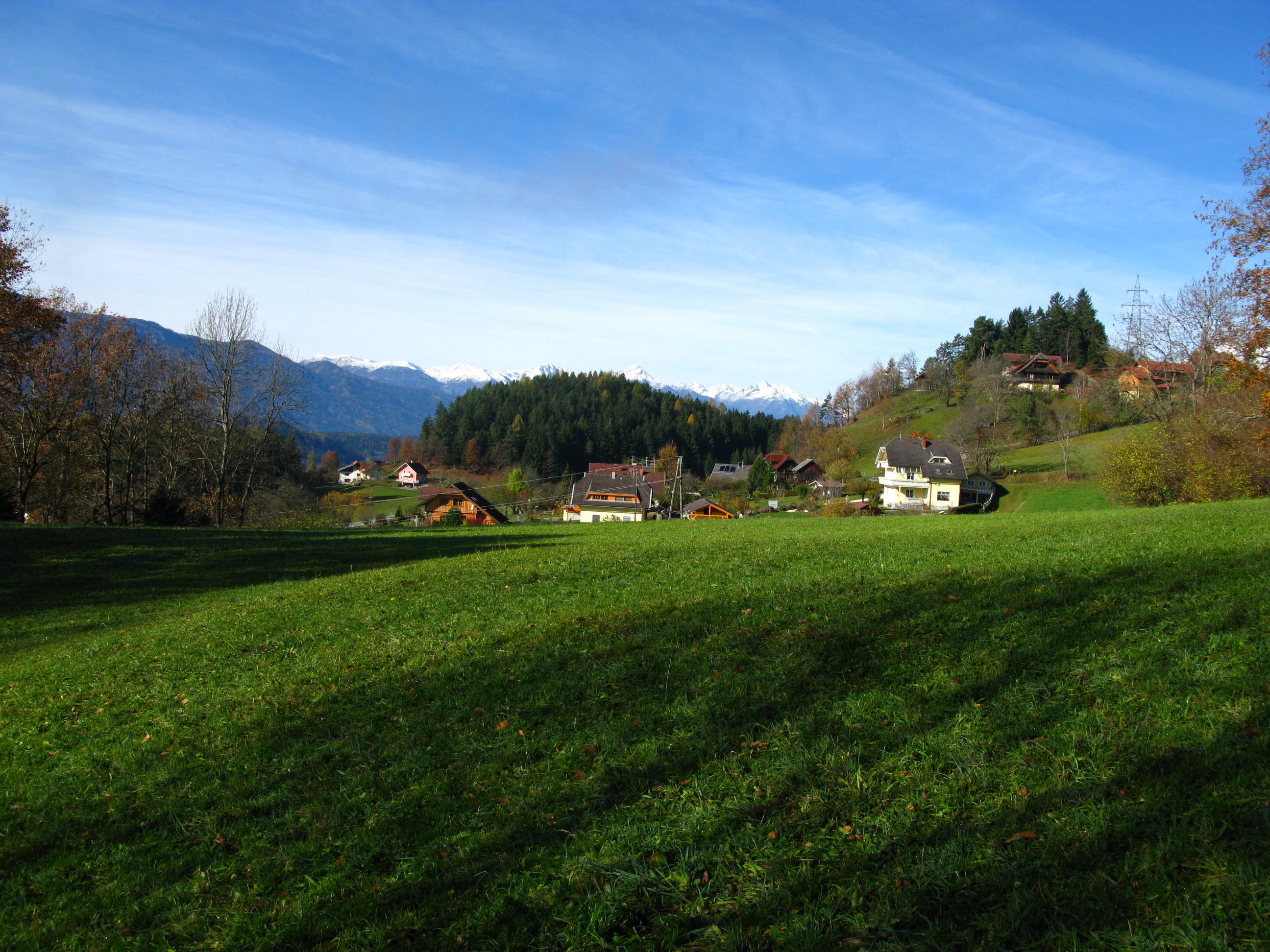 Görtschach, a dispersed settlement near lake Millstatt / Carinthia / Austria / EU.